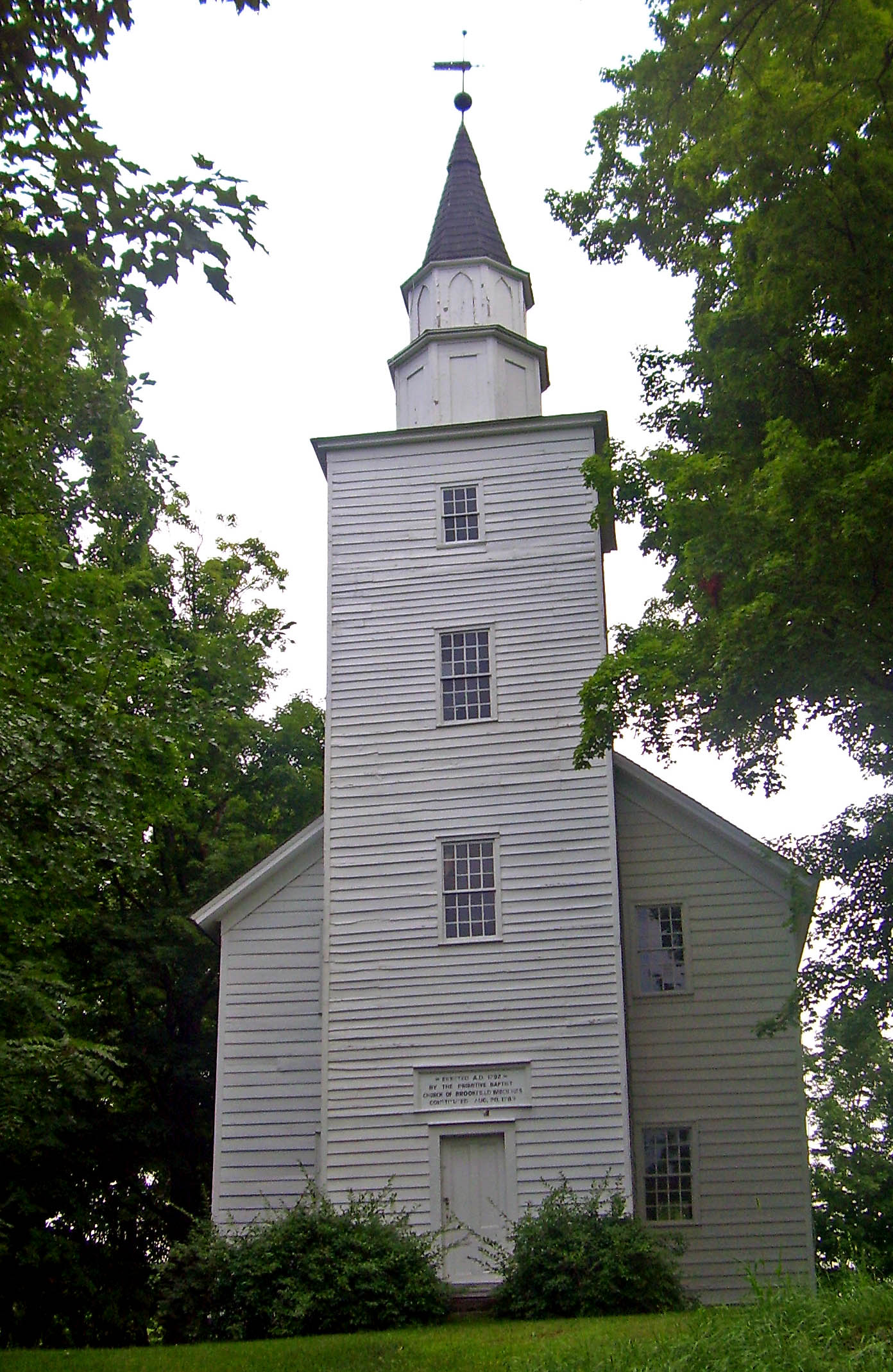 HPrimitive Baptist Church of Brookfield, Slate Hill, NY, USA